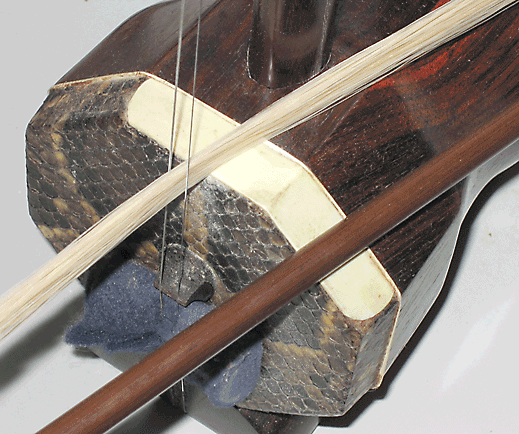 Picture showing bow hair in between the two strings.